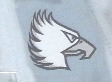 Tail marking of F-15J 62-8874 at the 2016 Hyakuri Air Show